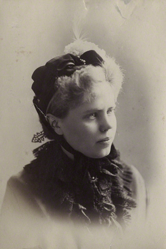 Evelyn Hunter Nordhoff (October 28, 1861 – September 9, 1912), African American civil rights activist and lawyer